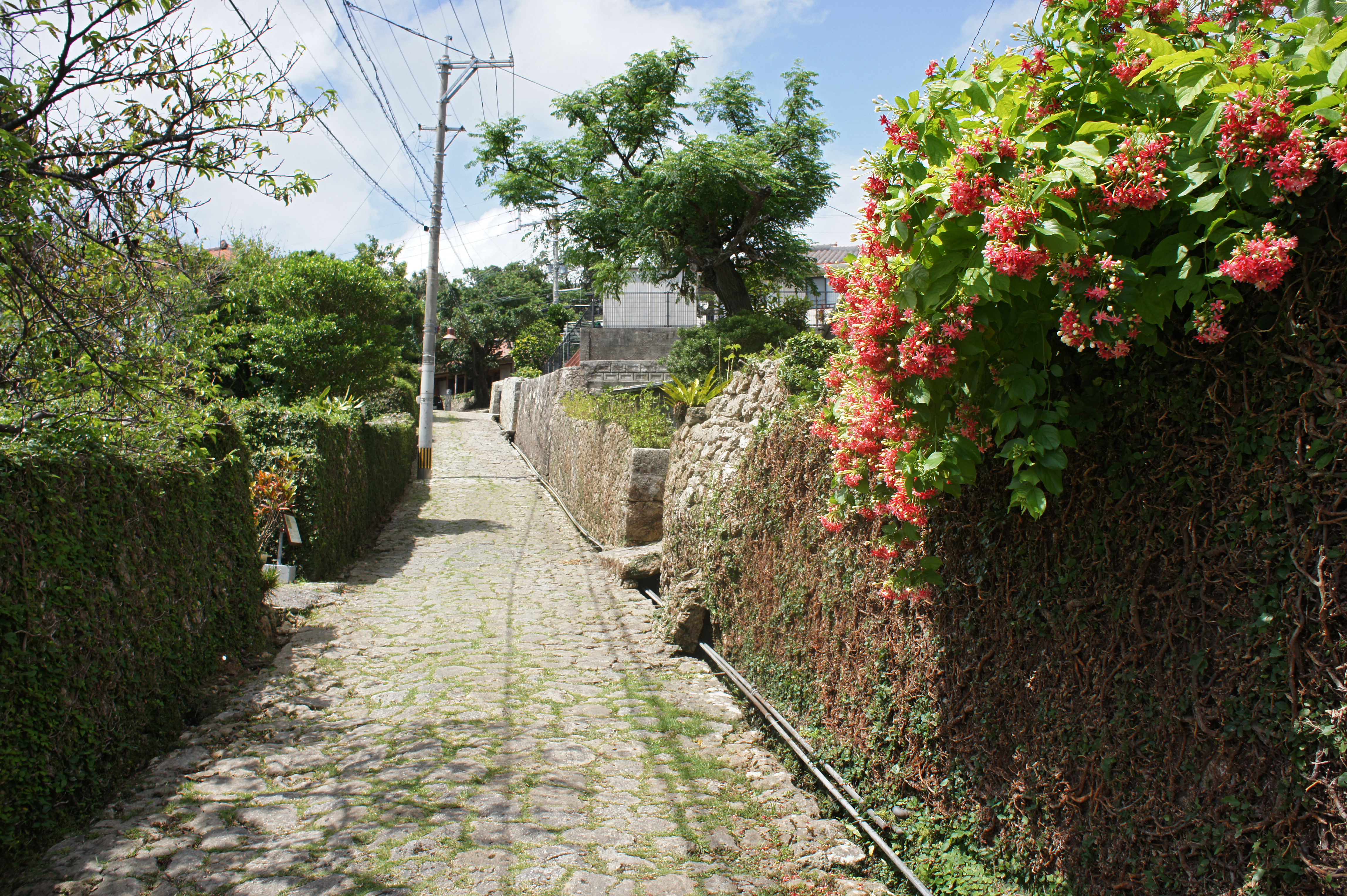 Shuri Kinjocho-ishidatami-michi in Naha, Okinawa prefecture, Japan